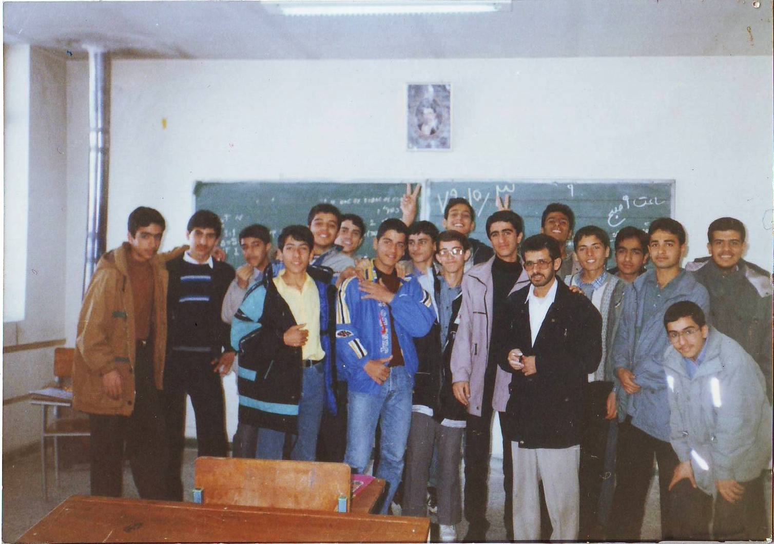 دانش آموزان مدرسه شاهد ازنا